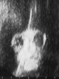 Ultrasound scan of 28 week anencephalic fetus.